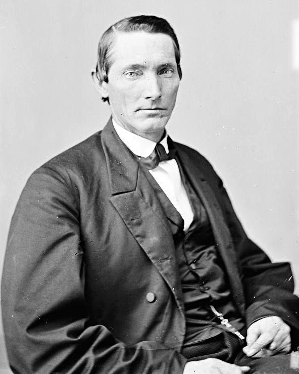 Kellian Whaley of Va & W.Va.